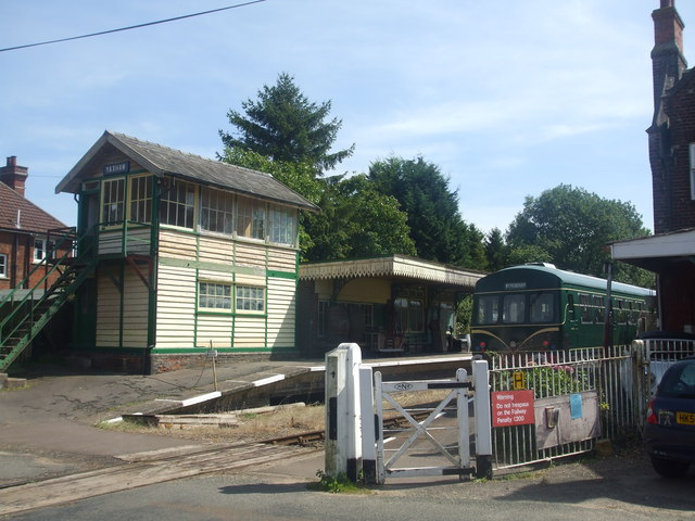 Class 101 Diesel Multiple Unit